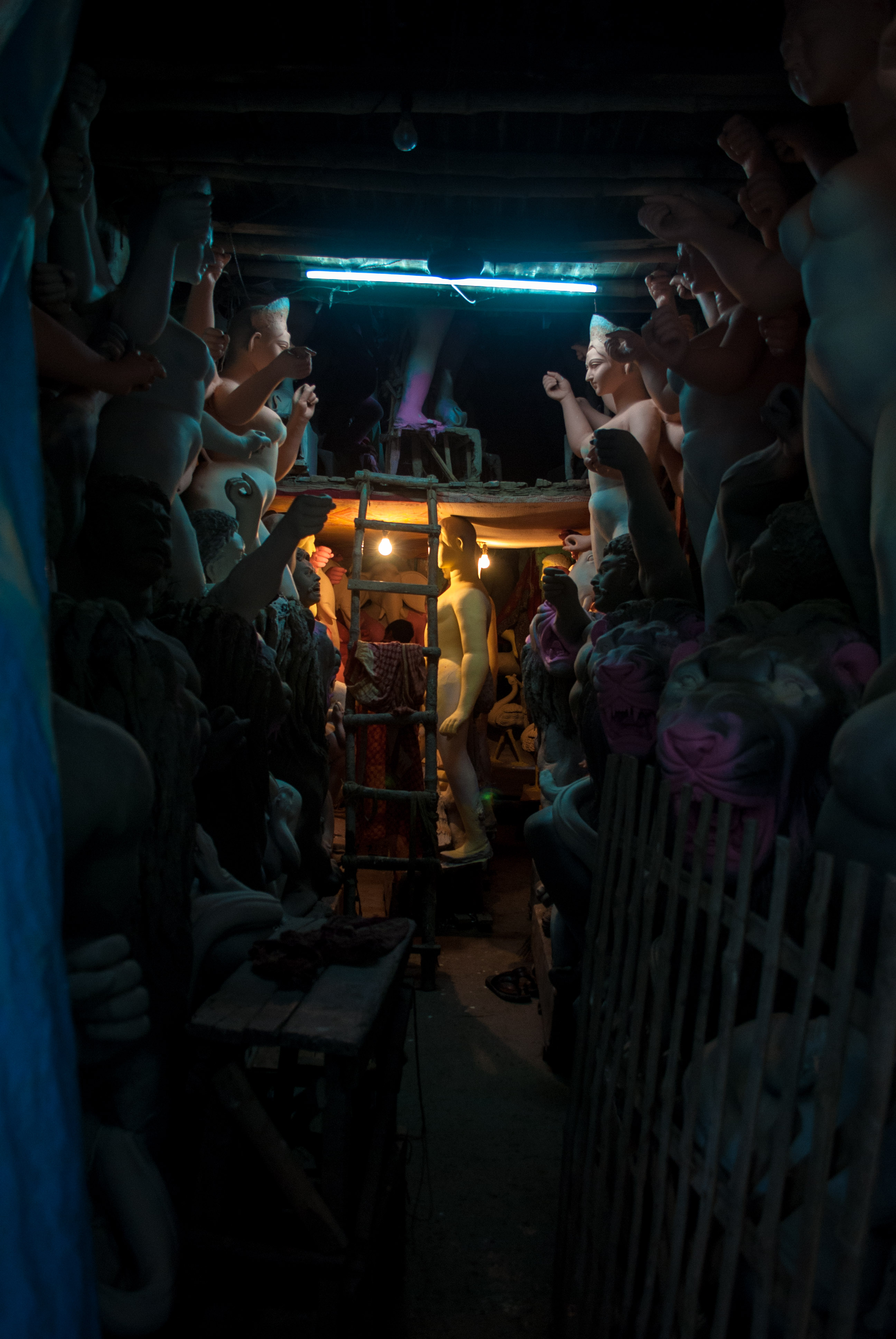 This image was taken in Kumortuli